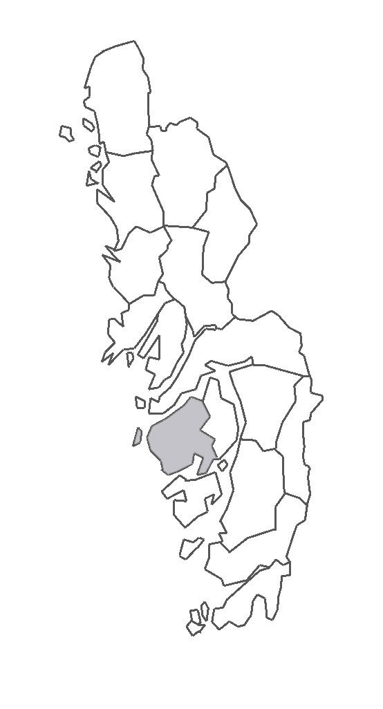 Map describing the location of Orust Western Hundred in Bohuslän Province, Sweden.